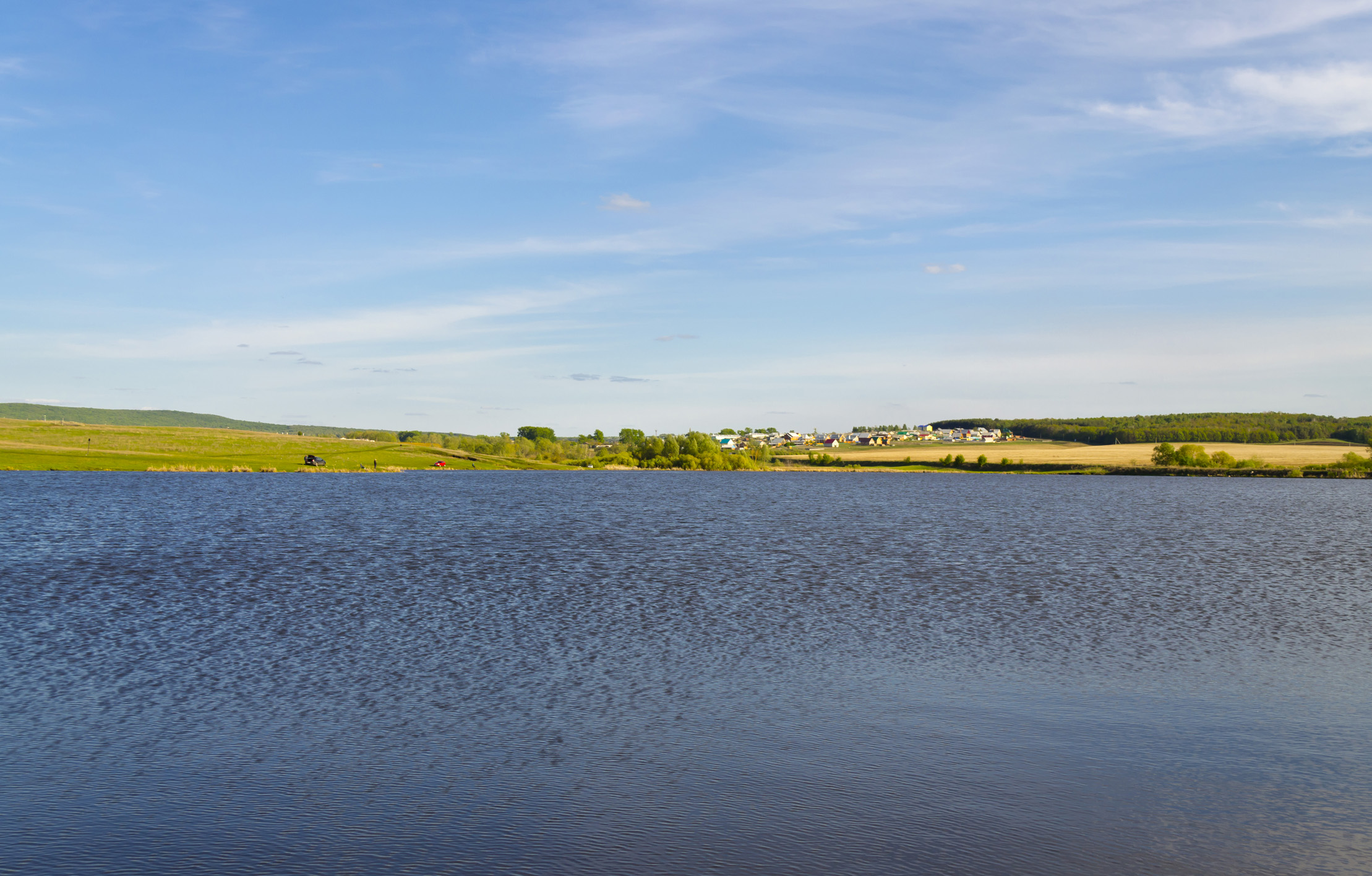 Pond, Termen'-Elga (river), Ishimbay